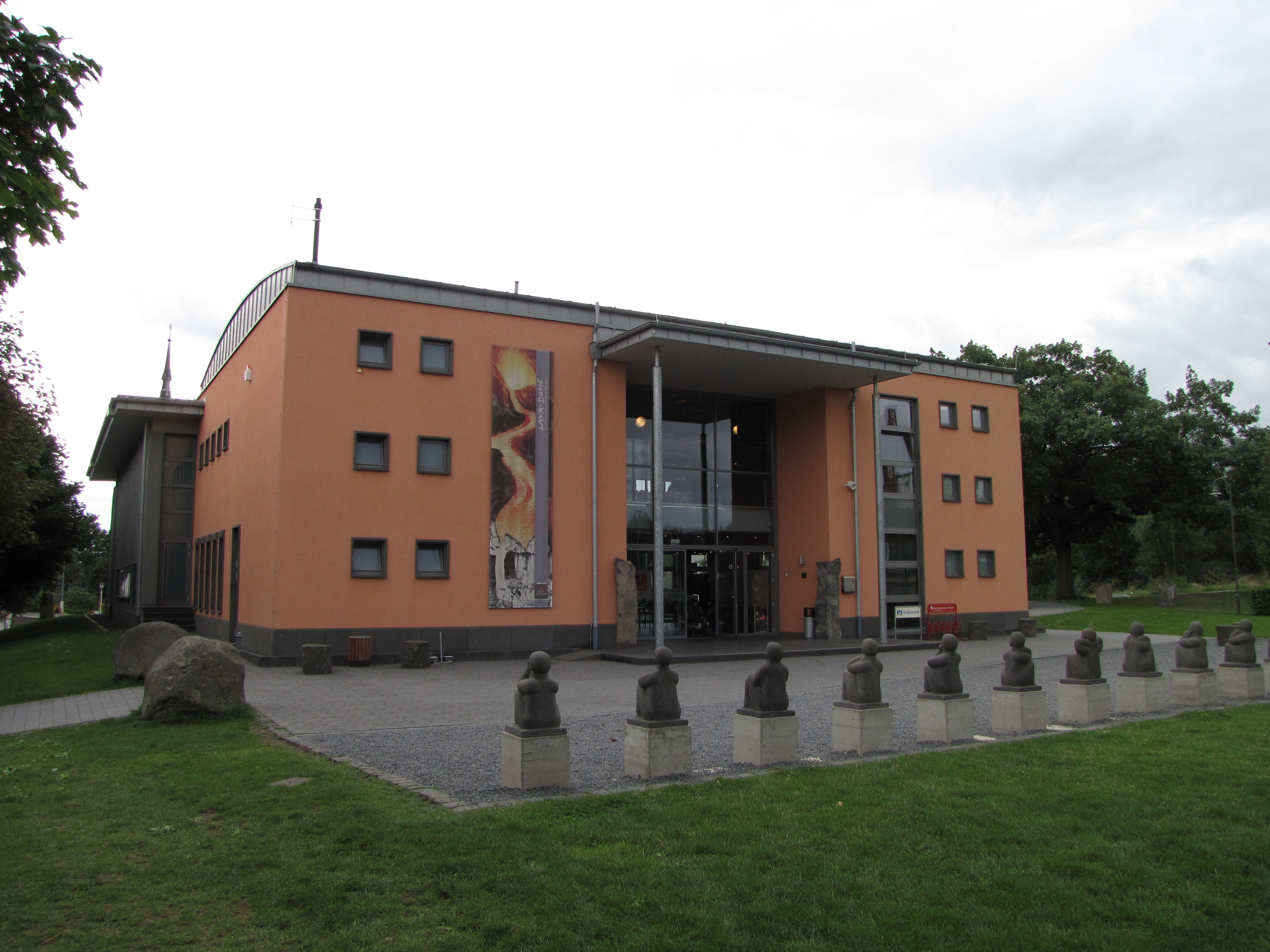 Museum Lava-Dome in Mendig